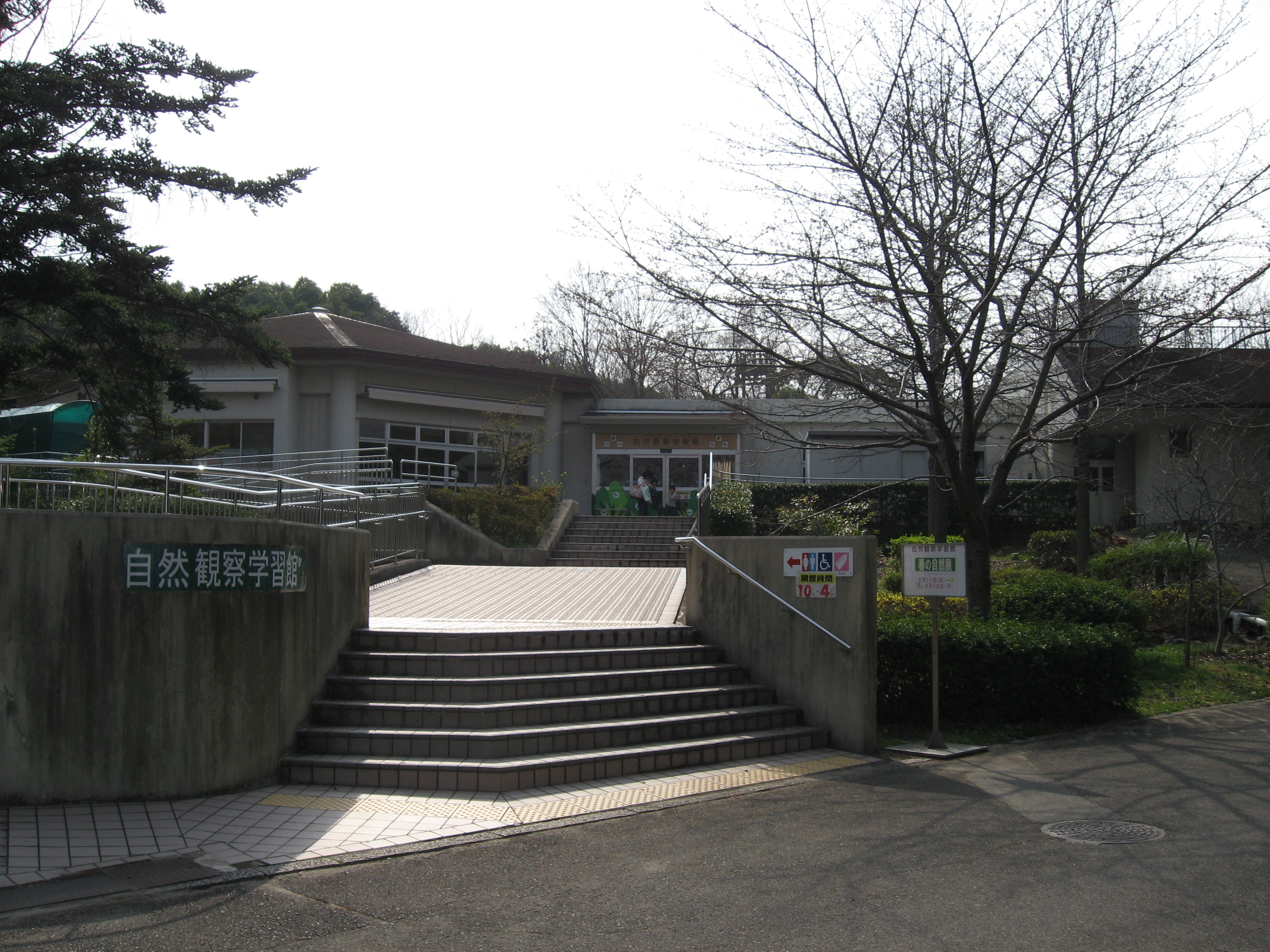 Nature Observation and Study Hall in The Natural and Cultural Gardens, The Expo Memorial Park, Suita city, Osaka, Japan.